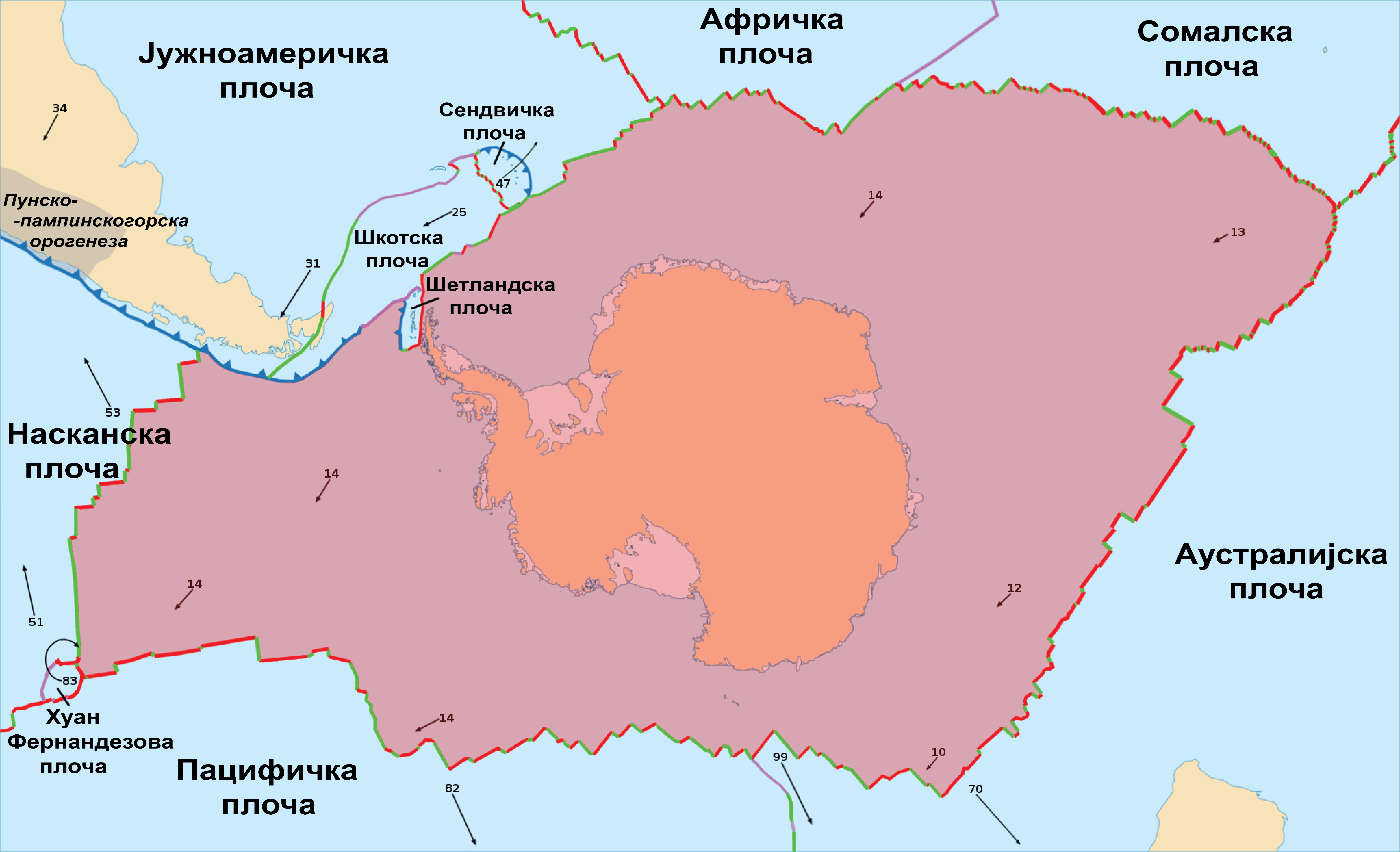 A map of the Antarctic plate (translated to Serbian)